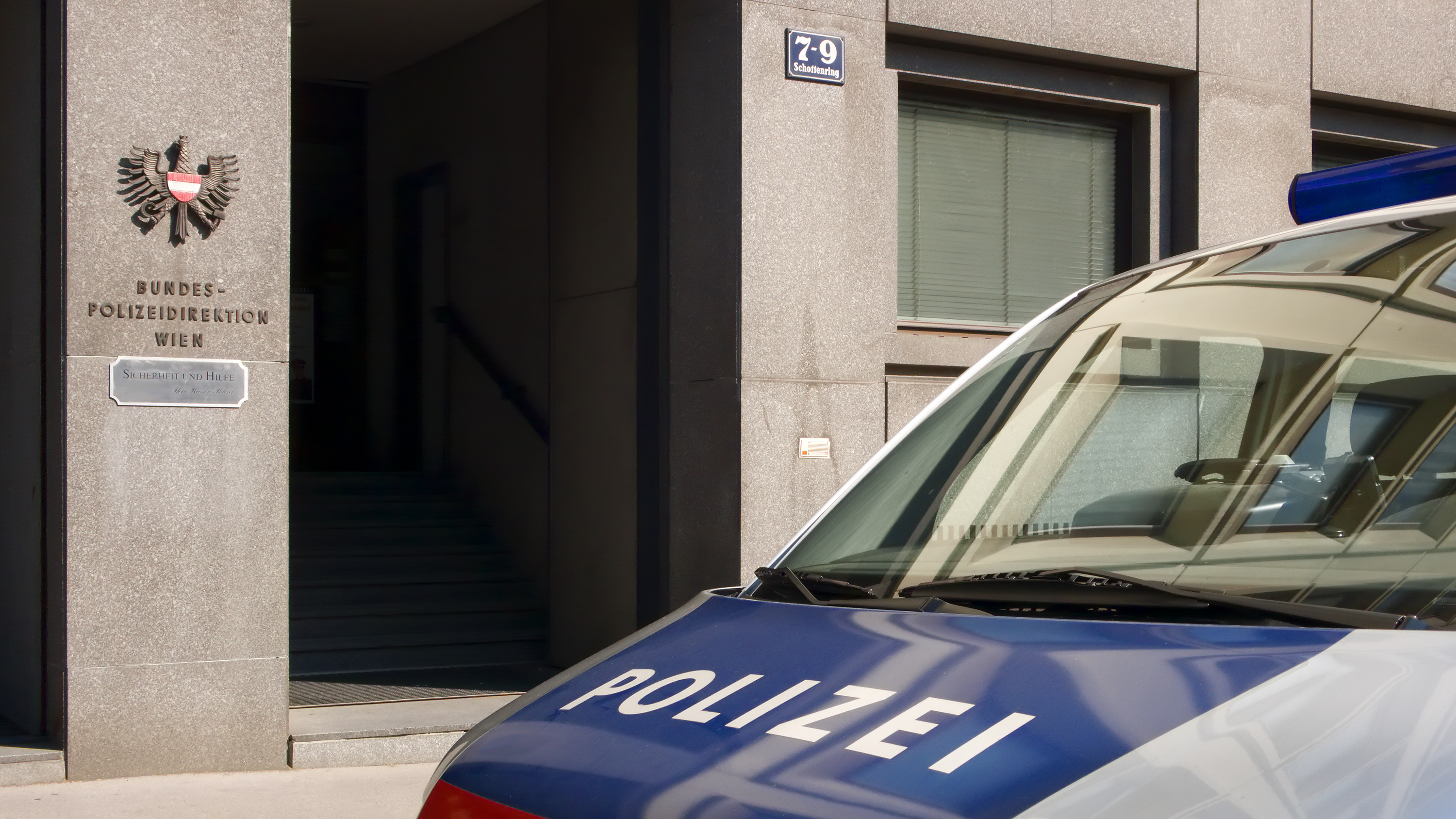 Police headquarters Polizeidirektion Wien (Schottenring 7–9) in Vienna Innere Stadt